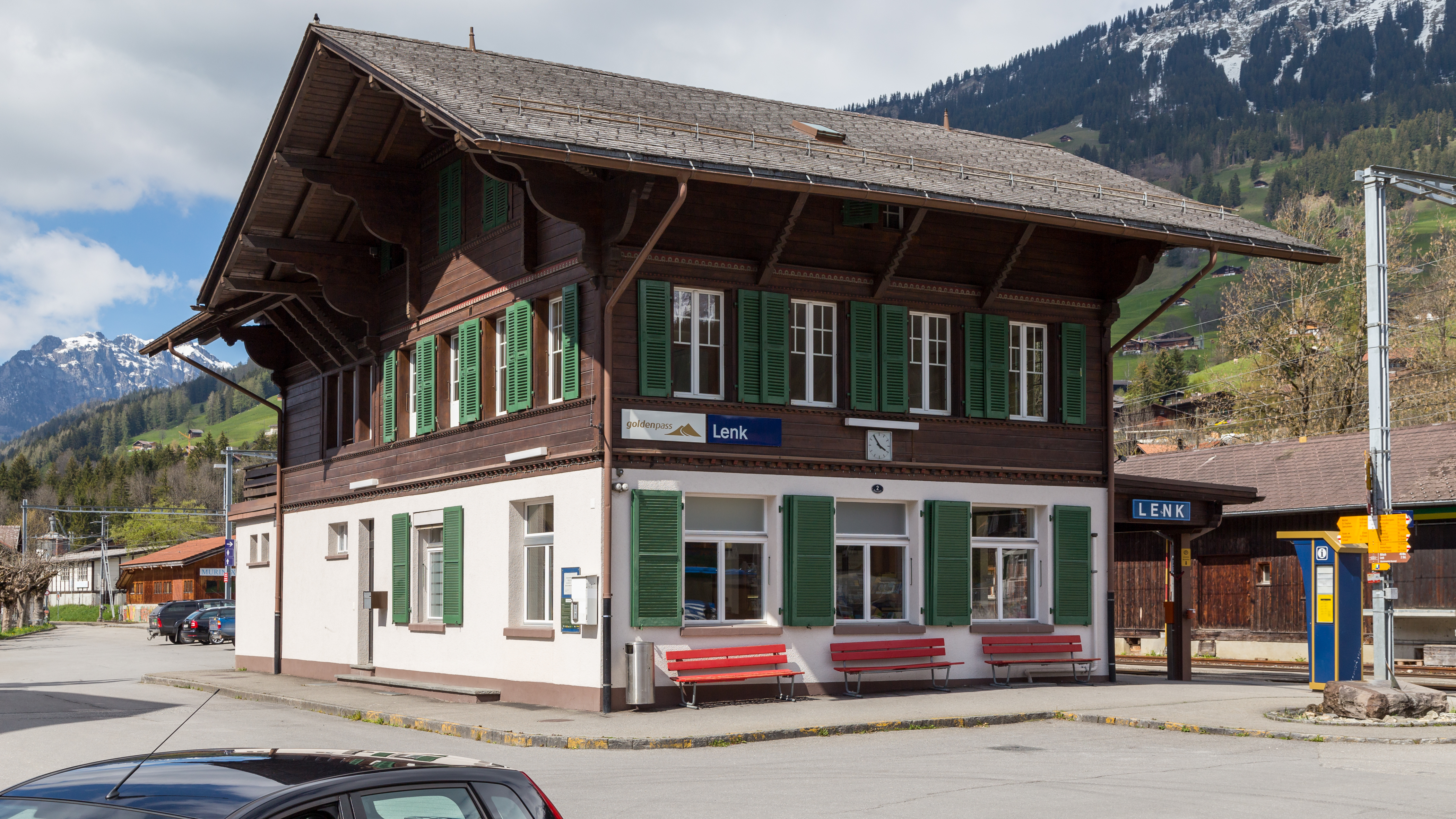 Lenk railway station of Montreux-Oberland bernois railway. Canton of Berne, Switzerland.